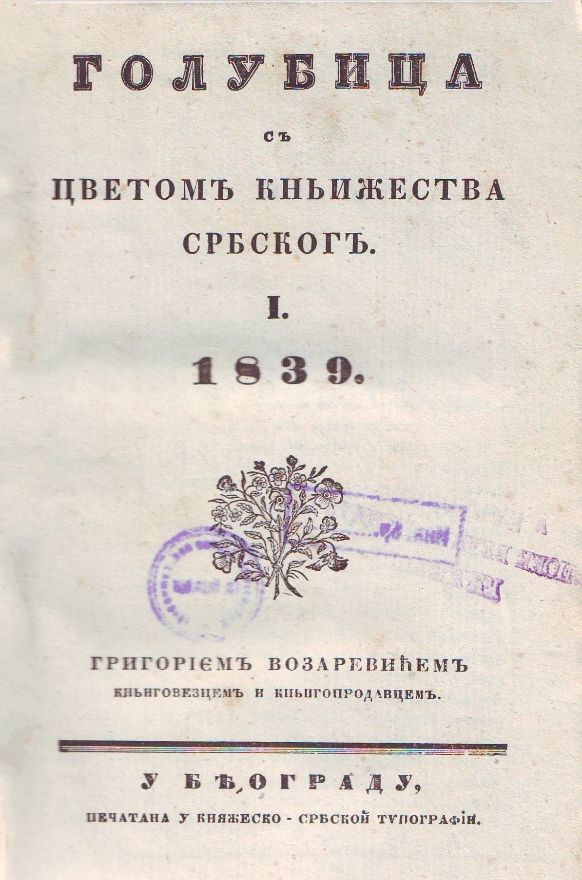 Cover of the first issue of the magazine Golubica (Dove) (1839). Srpski (latinica): Naslovna strana prvog broja časopisa Golubica (1839).